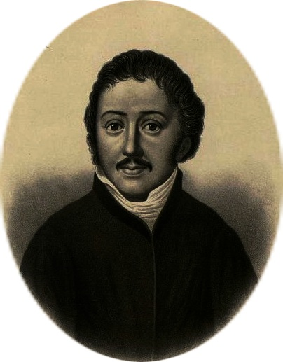 Prince Bagrat of Georgia